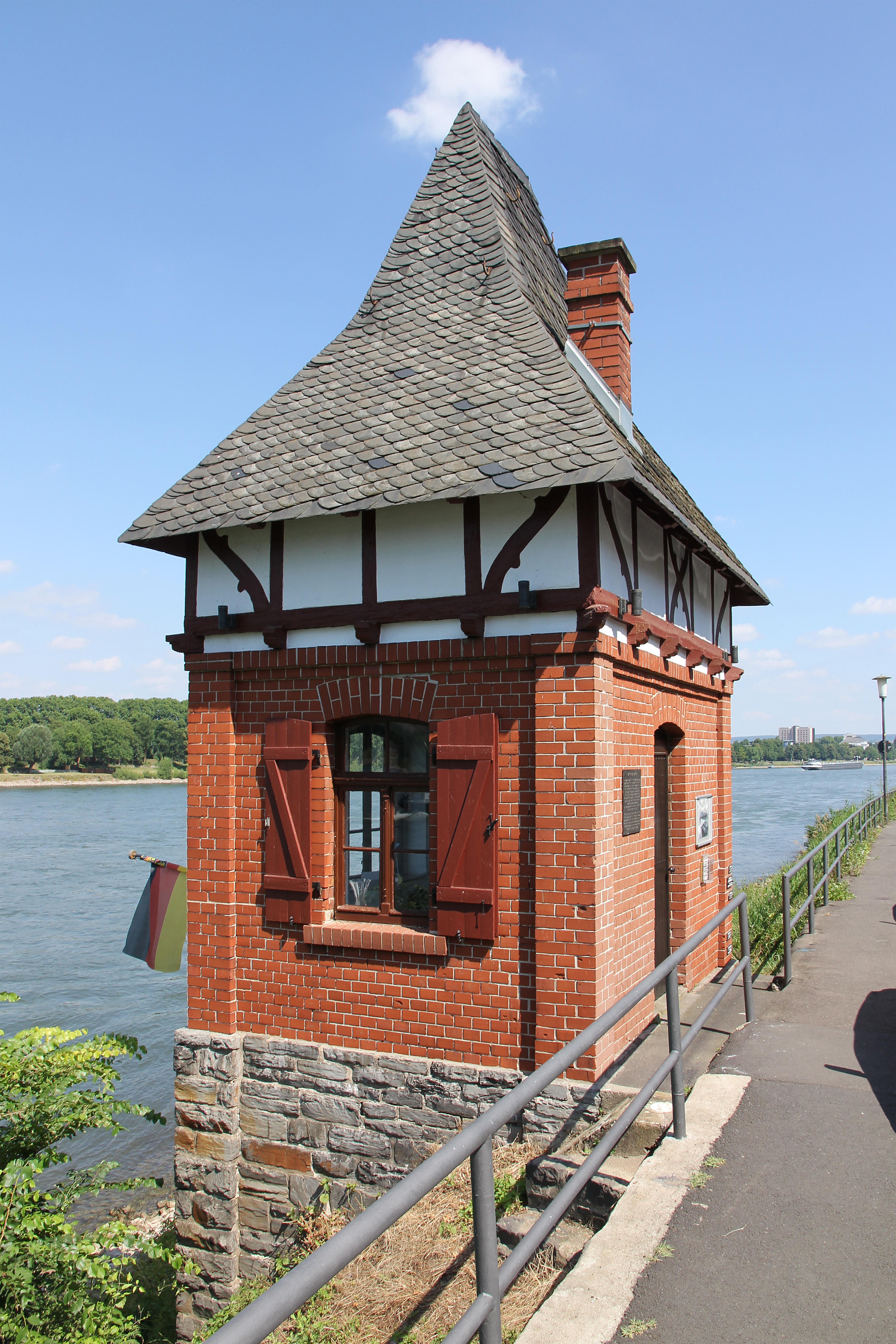 Former signal station in Koblenz